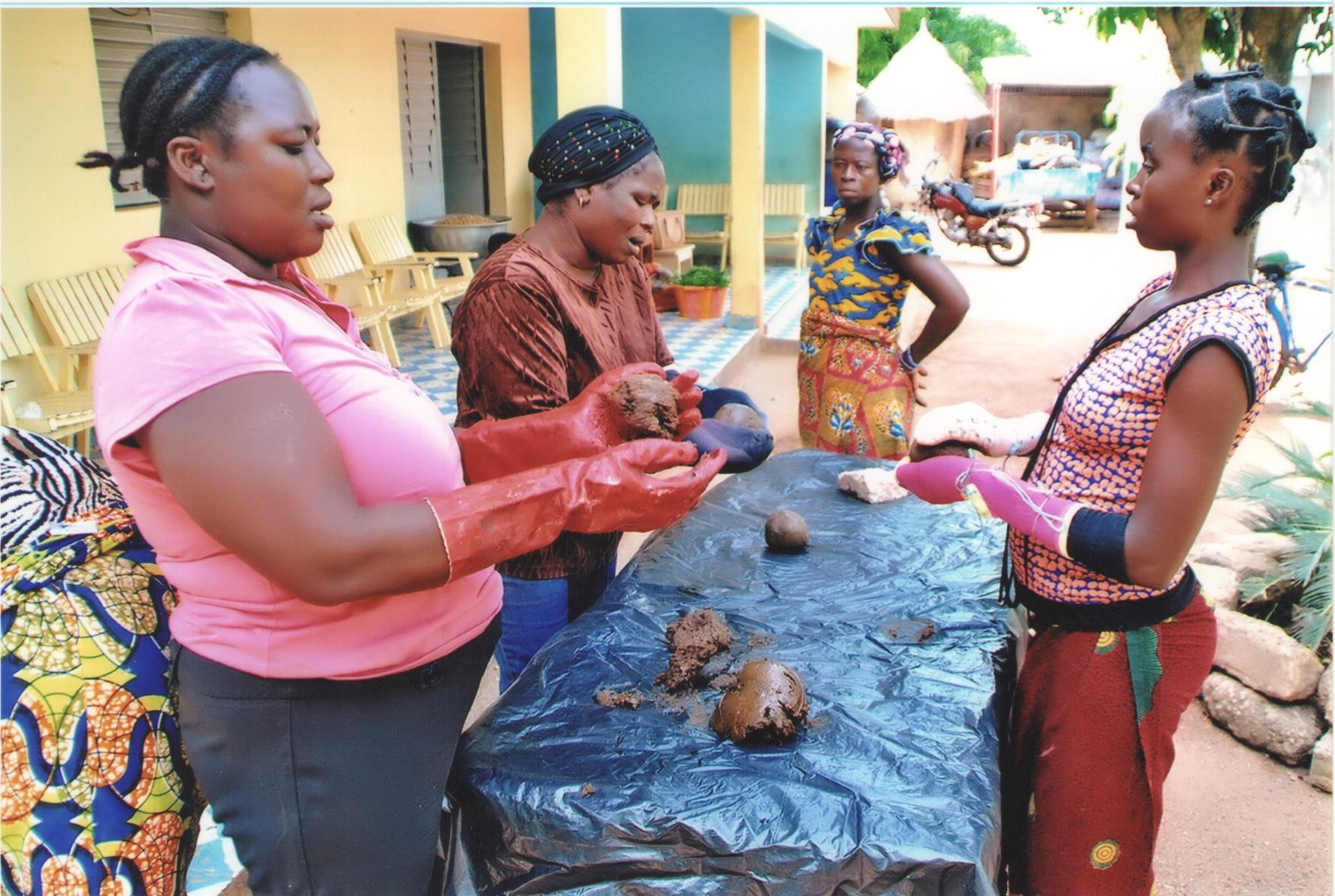 des femmes de Ferké ( 585 km au nord d'Abidjan ) fabricant du savons traditionnel appelé Kabacrou This is an image of "African people at work" from Ivory Coast